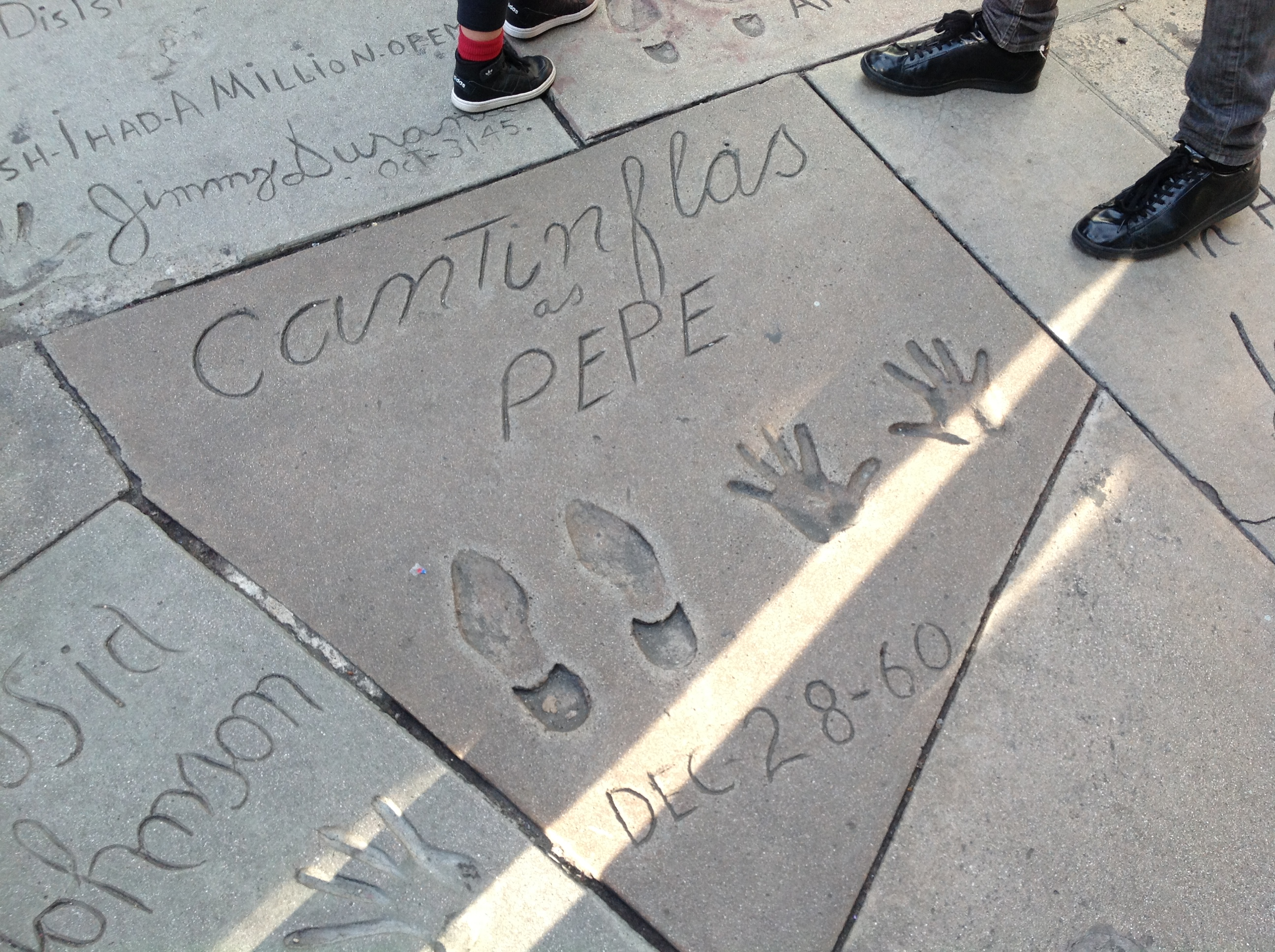 Hands and foot prints of Mario Moreno Cantinflas, Los Angeles. CA. USA